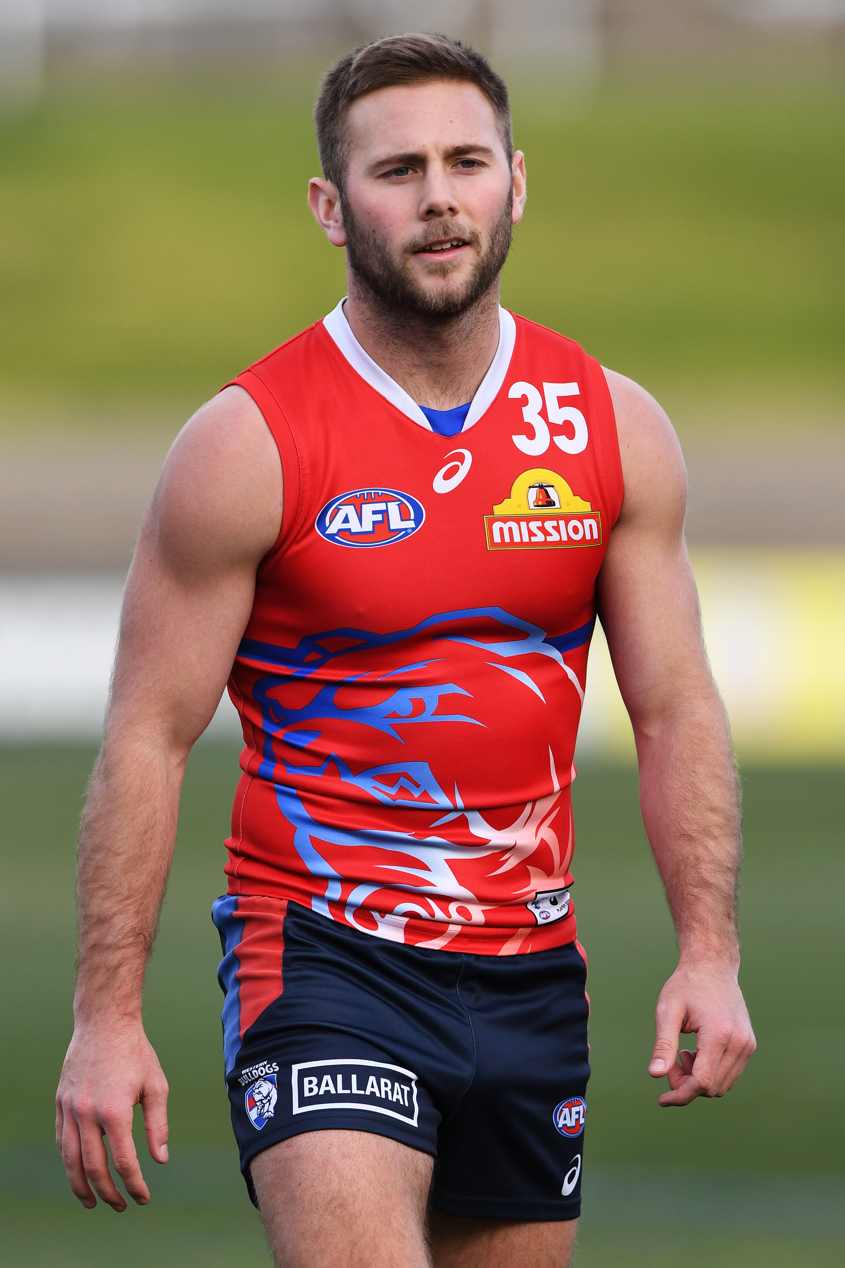 Caleb Daniel of the Western Bulldogs during Western Bulldogs training on 7 August 2018 at Whitten Oval in Melbourne, Victoria.